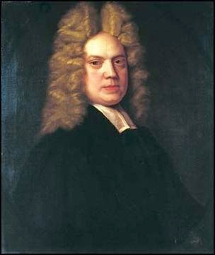 Portrait of Henry Sacheverell